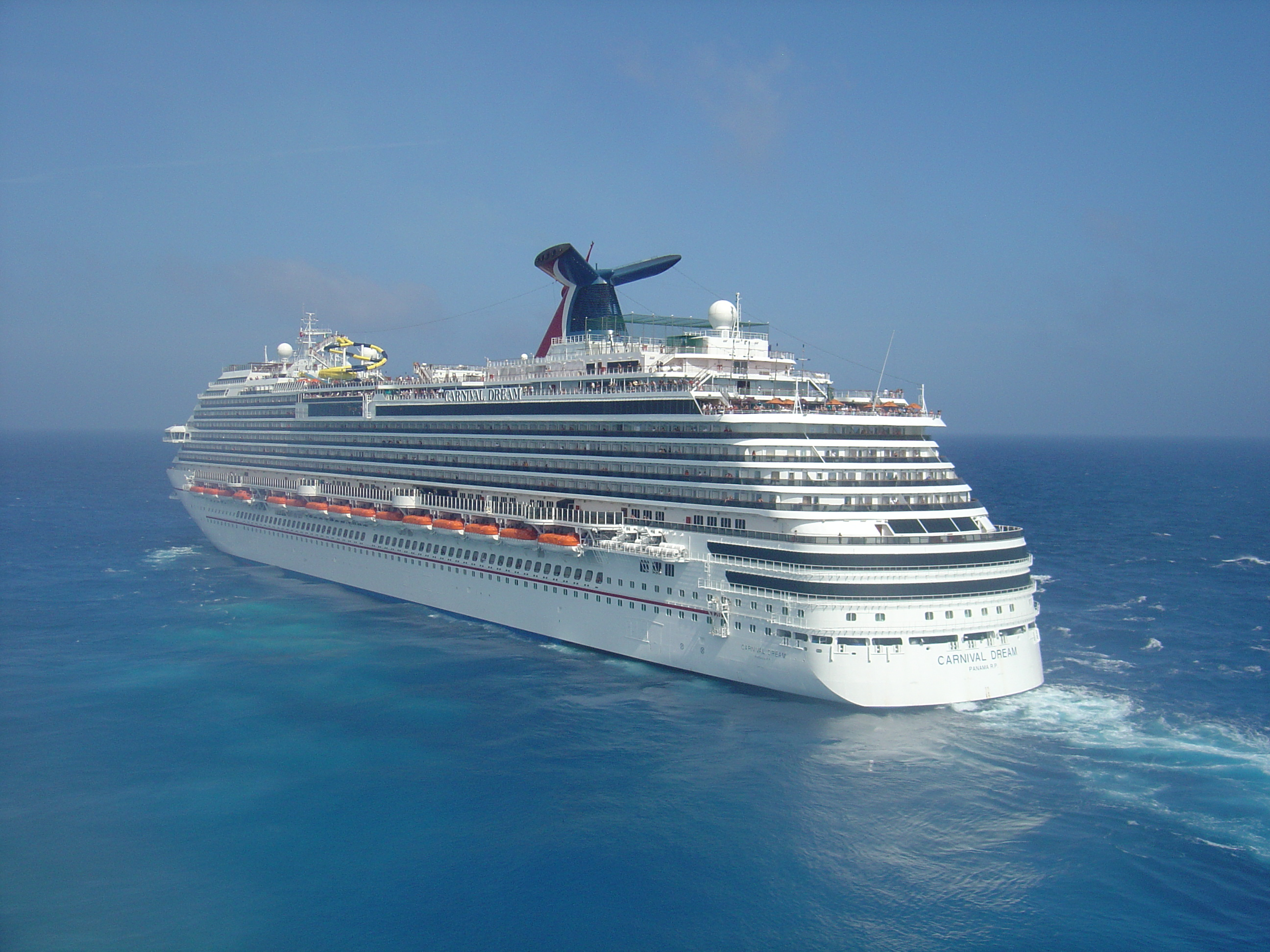 Carnival Dream